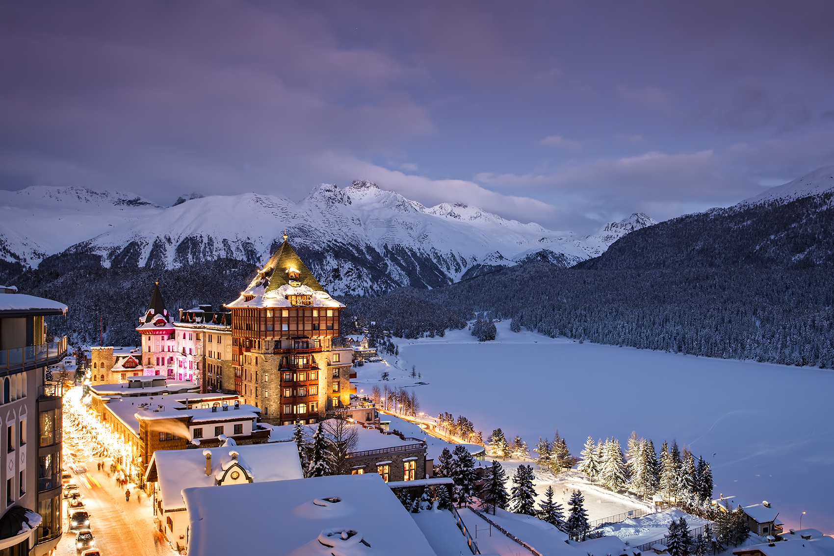 Exterior of the Badrutt's Palace Hotel.